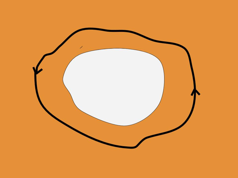 Integration path in superconductor needed in proof of flux quantisation